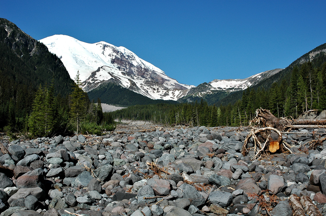 The dry gravel bed of the White River floodplain near the campground in Mount Rainier National Park. – "The floods in the park last fall took a big toll, slashing new routes for glacier streams up the valley and lots of dead trees littering the valley. If you stand beside the river and listen you can hear the sound of the boulders cracking against each other, being rolled down the river by the force of the glacier flow."